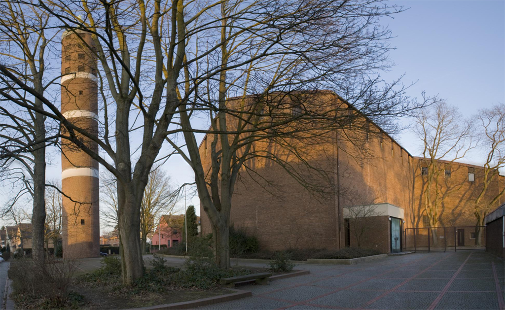 St. Bernhard Church in Cologne. The Church of the "Katholikentagssiedlung"